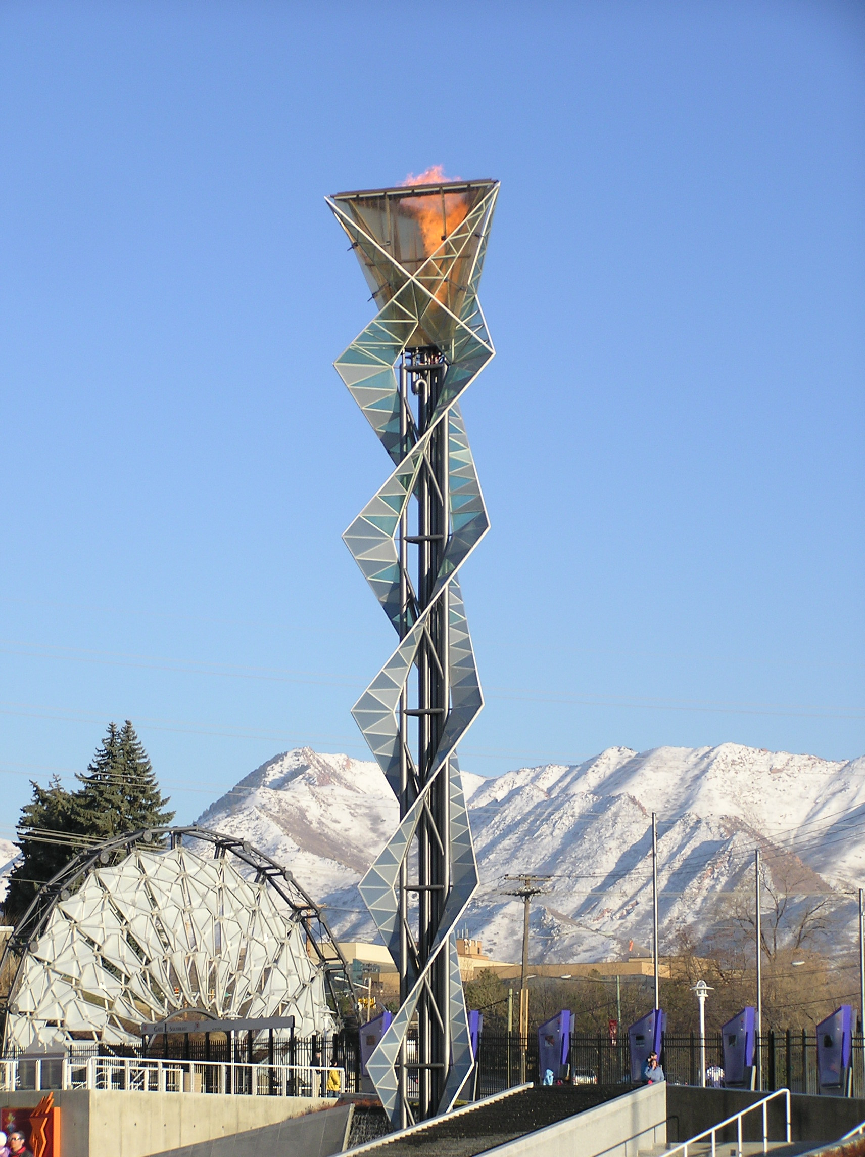 Salt Lake 2002 Olympic Cauldron Park with Cauldron lit for the opening weekend of the 2006 Winter Olympics. Hoberman Arch is at the bottom left. Salt Lake City, Utah, USA